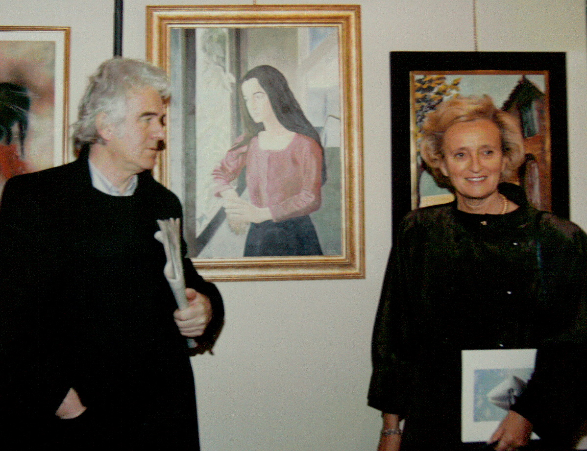 photo